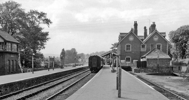 Brecon Station. View westward, towards Neath; ex-GWR Neath & Brecon section. A scene just six months before the whole station and all lines were closed on 31/12/62. For more details, see SO0428 : Brecon Station: activity at the east end.